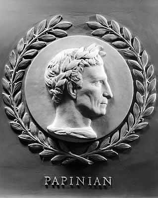 Papinian marble bas-relief, one of 23 reliefs of great historical lawgivers in the chamber of the U.S. House of Representatives in the United States Capitol. Sculpted by Laura Gardin Fraser in 1950. Diameter 28 inches.